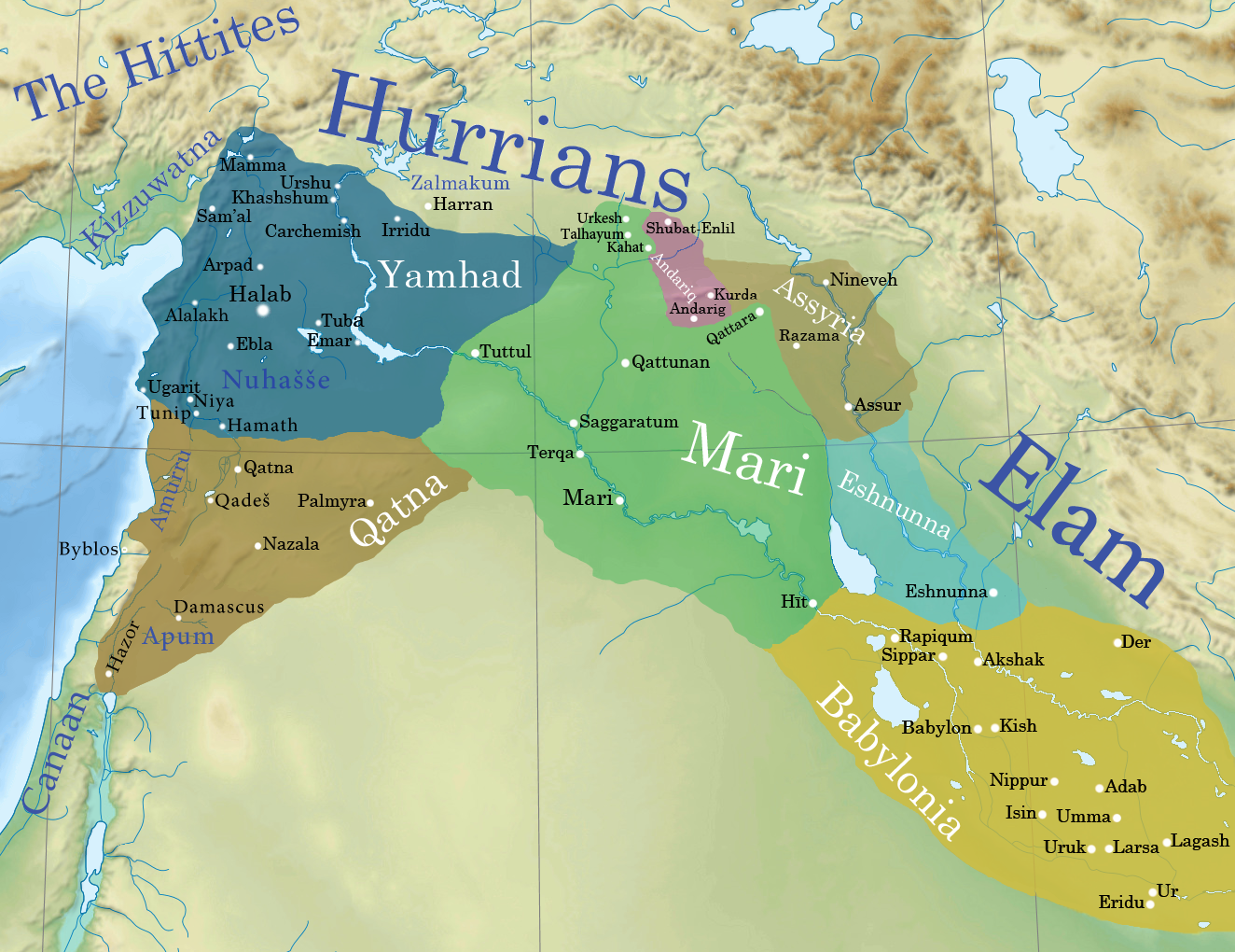 Mari 1764 bc. In brown: Qatna at its height.[1]